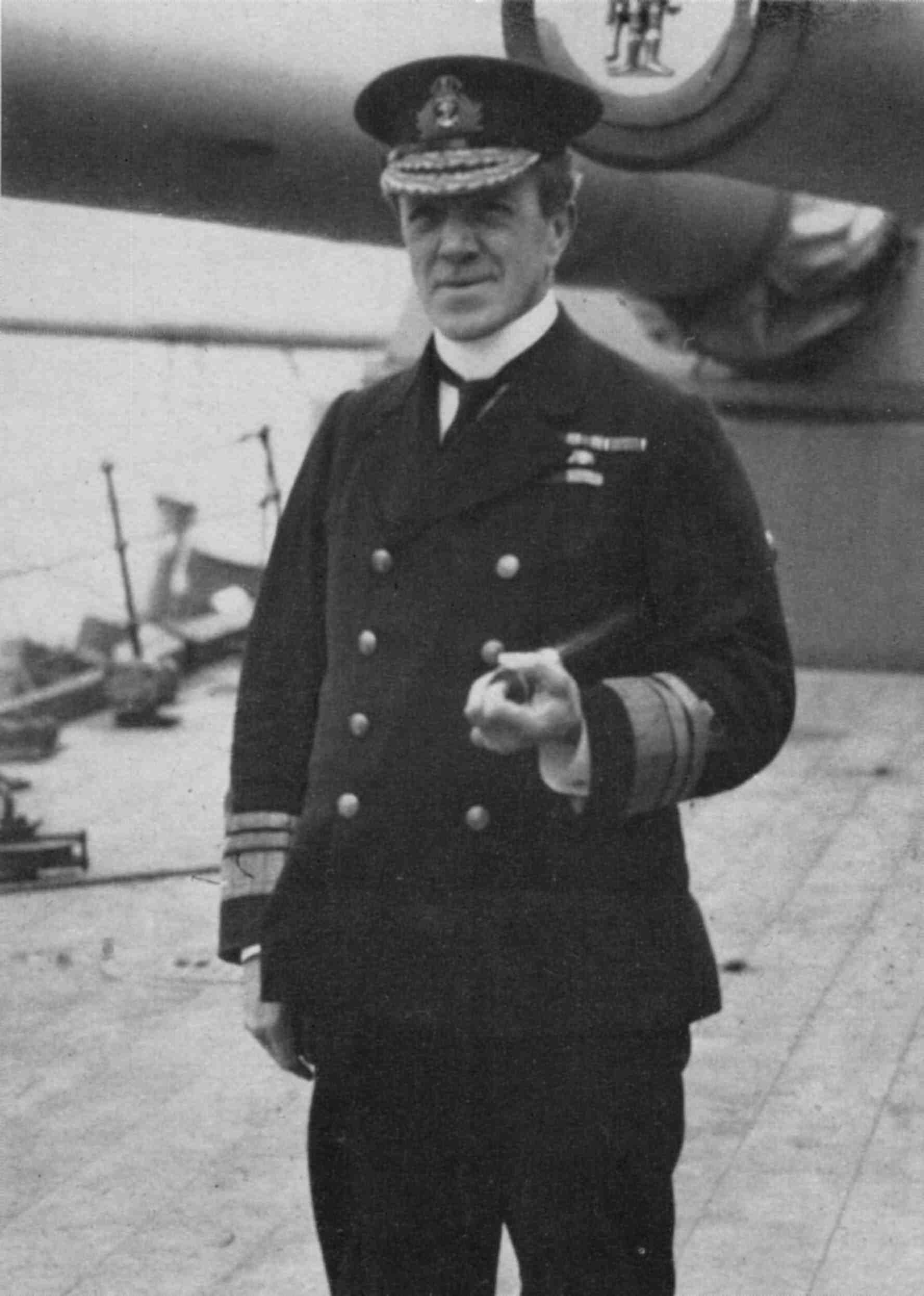 Vice Admiral Sir Doveton Sturdee, Flag Officer Commanding the Fourth Battle Squadron, on the quarterdeck of HMS HERCULES.